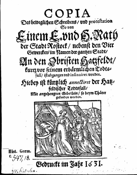 Title page of a booklet concerning the murder of Heinrich Ludwig von Hatzfeld, Imperial Colonel, at Rostock, January 1631, the woodcut show Judith and the head of Holfernes